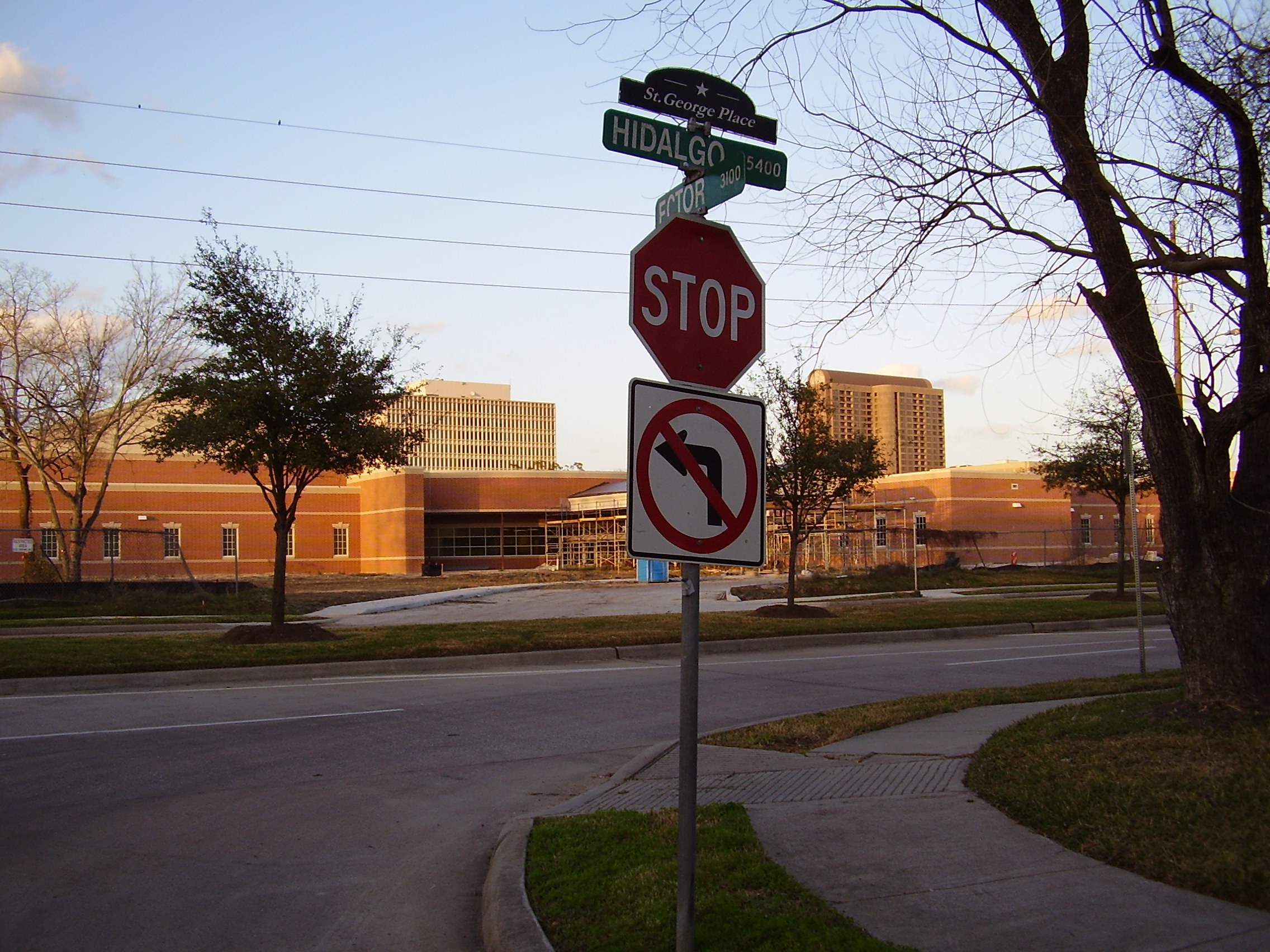 St. George Place street sign and the under-construction St. George Place Elementary School